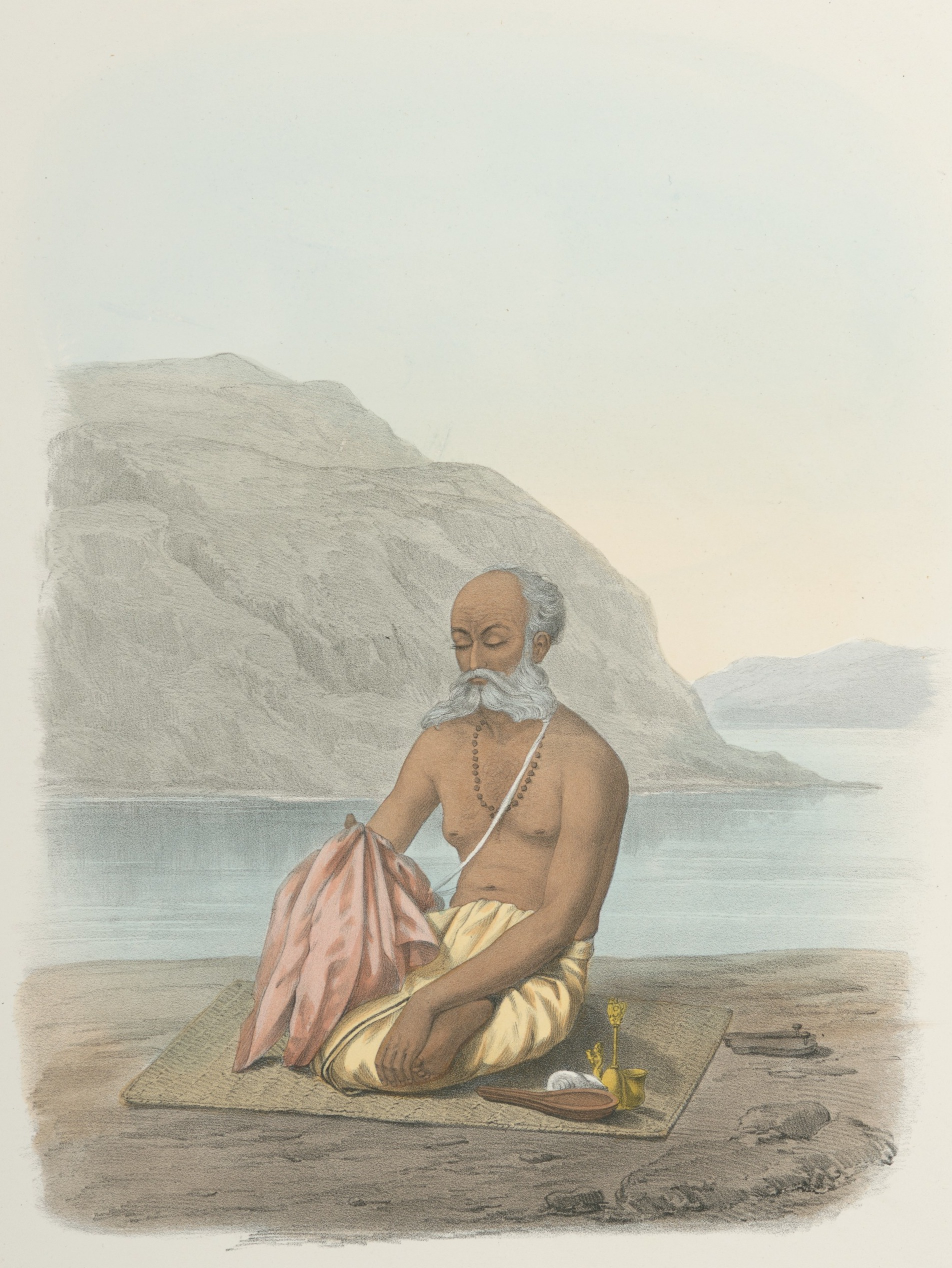 Gayatri Jup [Gayatri japa]. The secret prayer. 1851